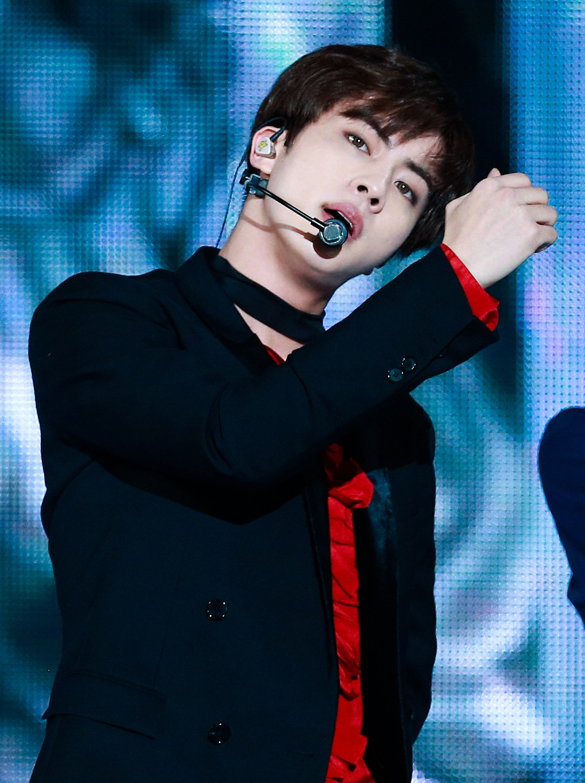 Jin performing at Melon Music Awards, 19 November 2016